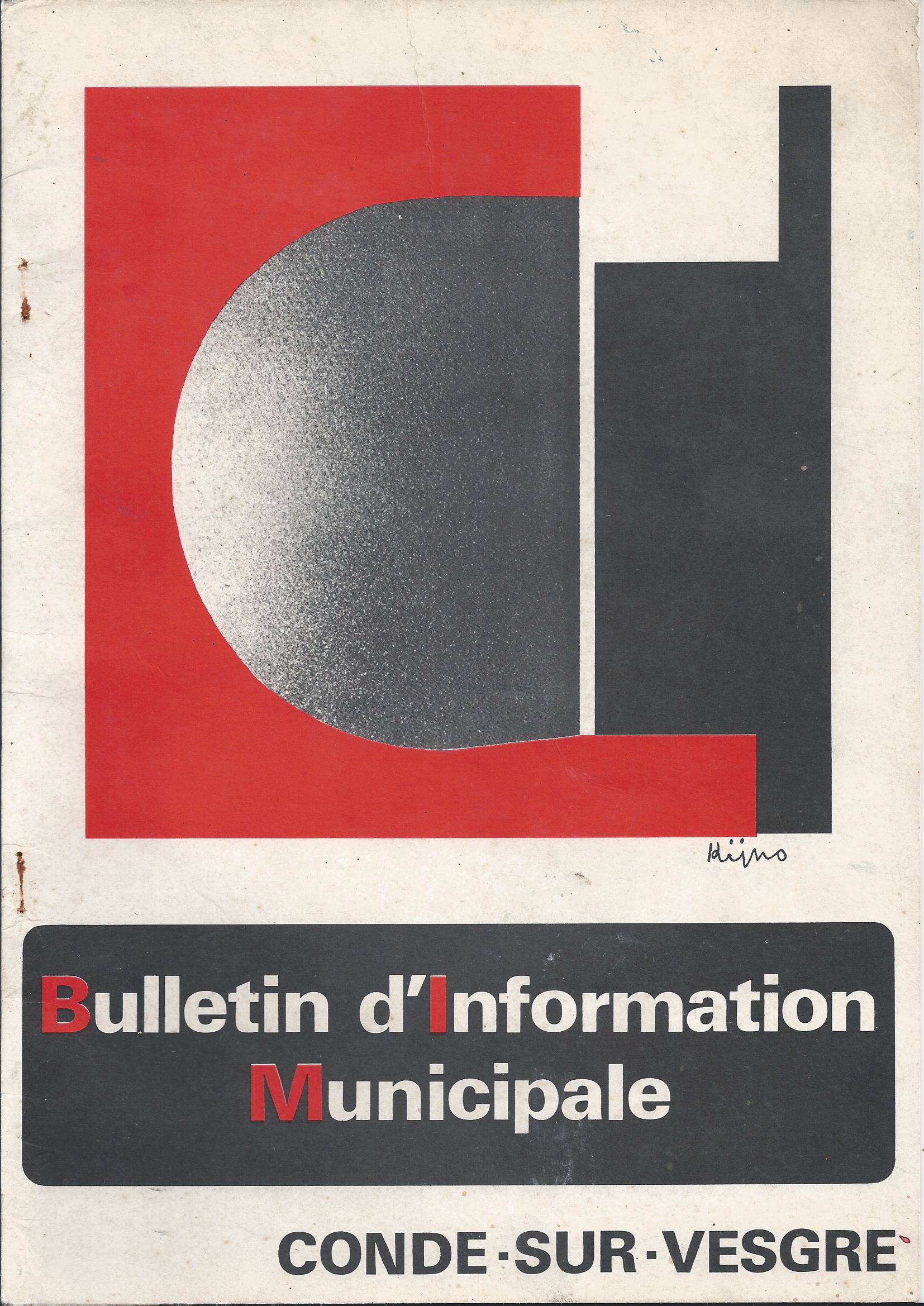 Municipality newsletter of condé sur vesgre 1972 - cover by Ladislas Kijno